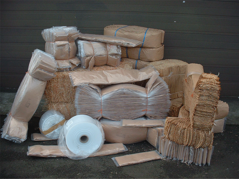 Various different ways in which Fibrenap can be produced.